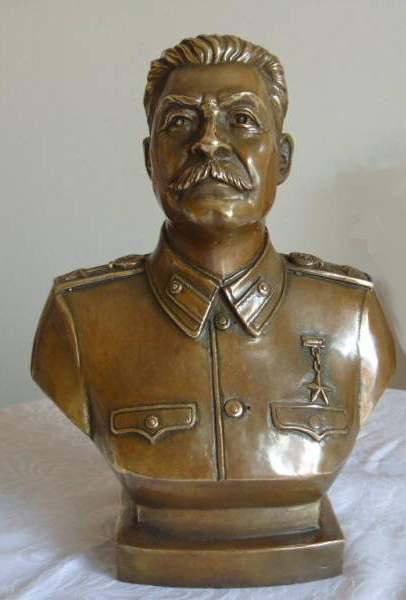 Stalin buste